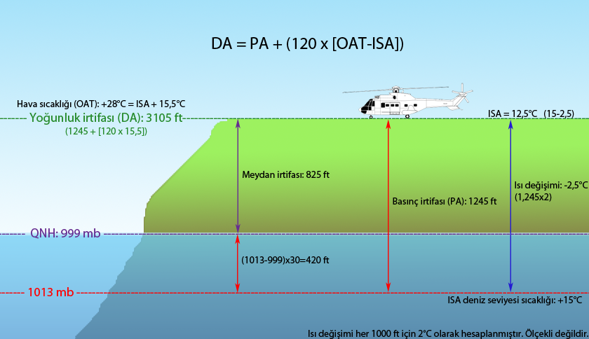 Density altitude calculation